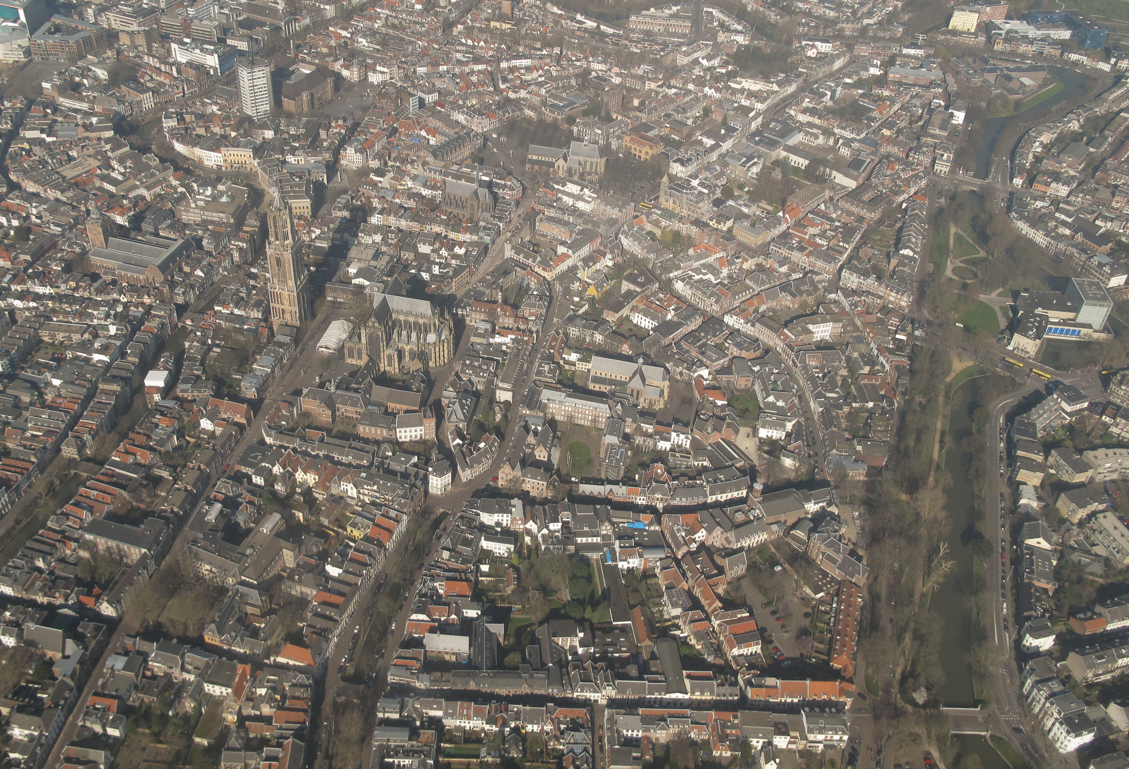 Utrecht, center